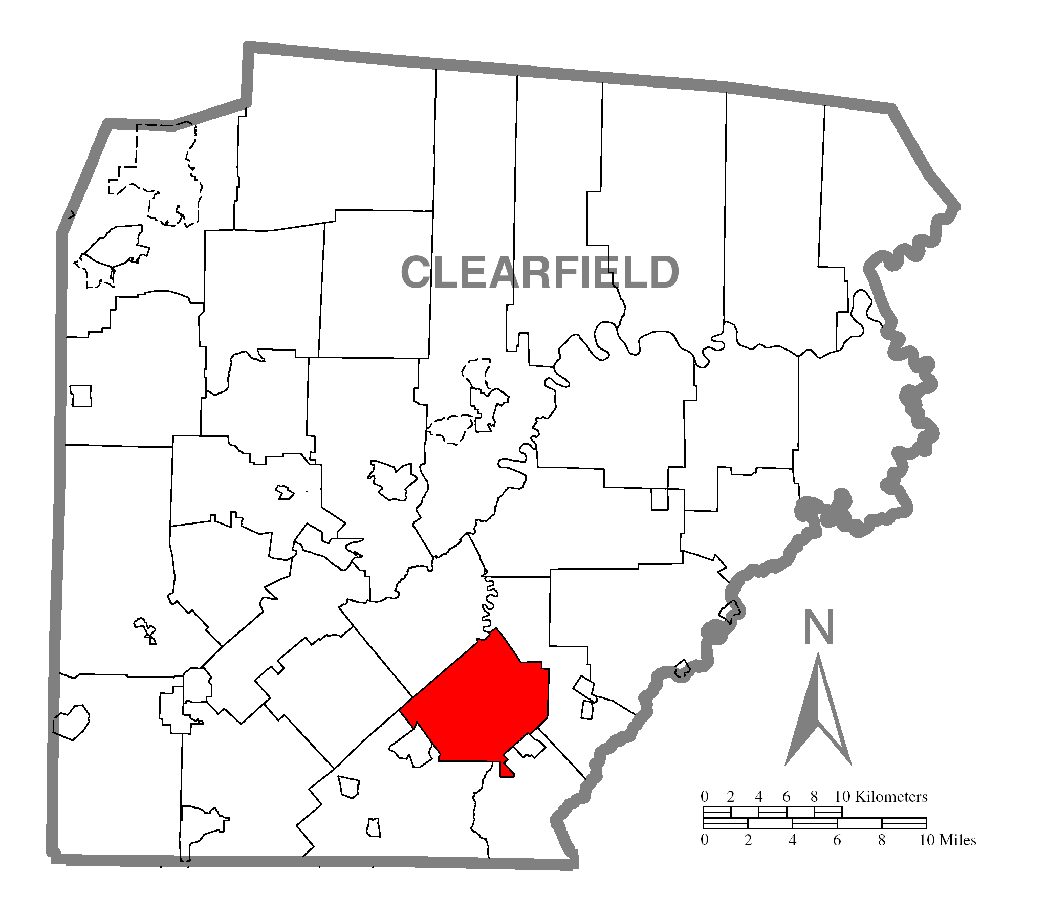 A map of Clearfield County showing Bigler Township, Pennsylvania (alternate) highlighted on the map.